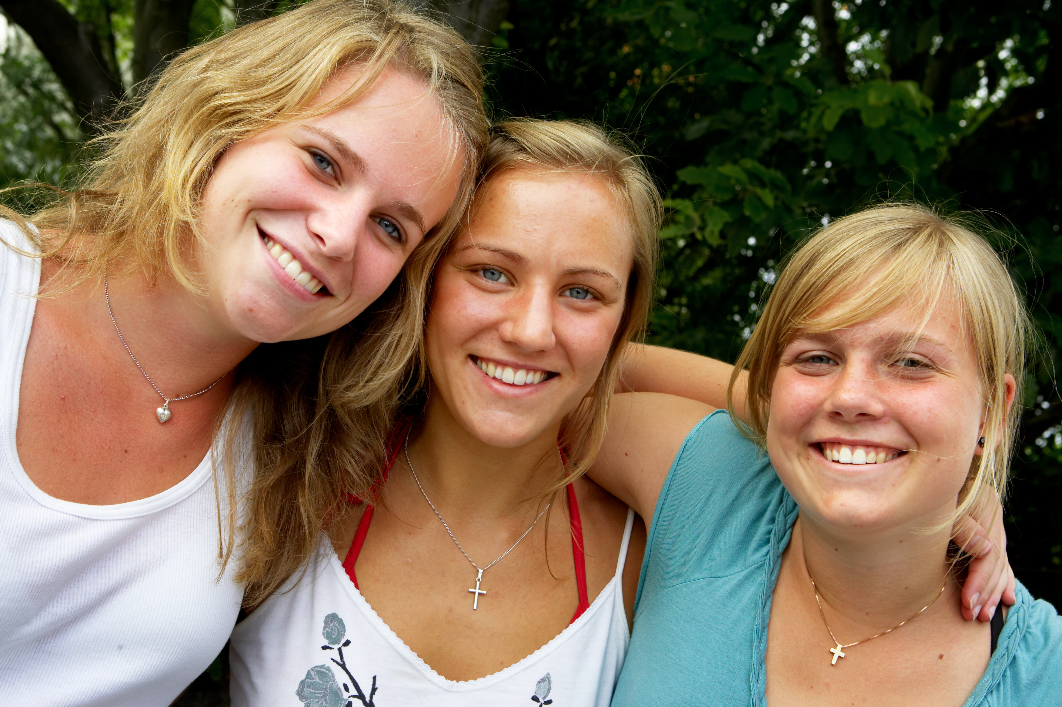 Ungdommar Keywords: Children and Young Adults, Solidarity